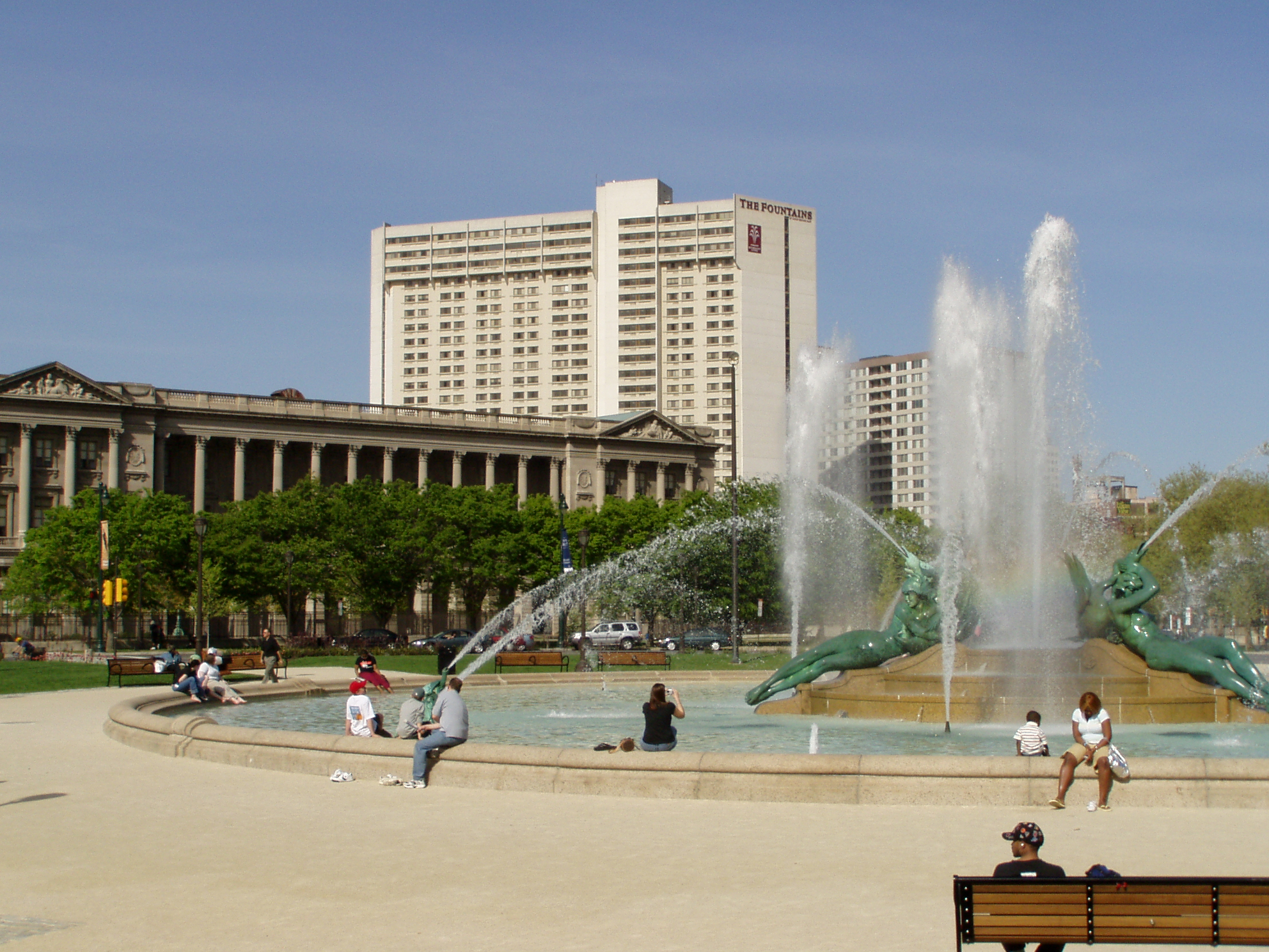 Taken in Philadelphia, Pennsylvania, in April 2006. The Swann Memorial Fountain in Wikipedia:Logan Circle (Philadelphia), viewed from the west.